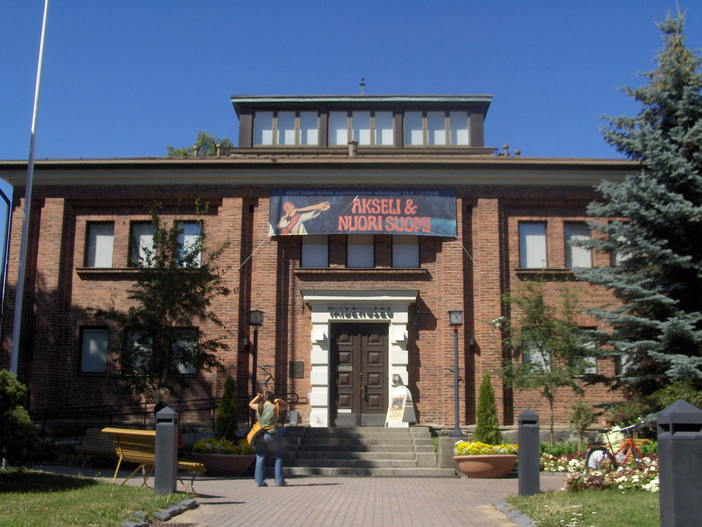 Tampere Art museum in Tampere, Finland